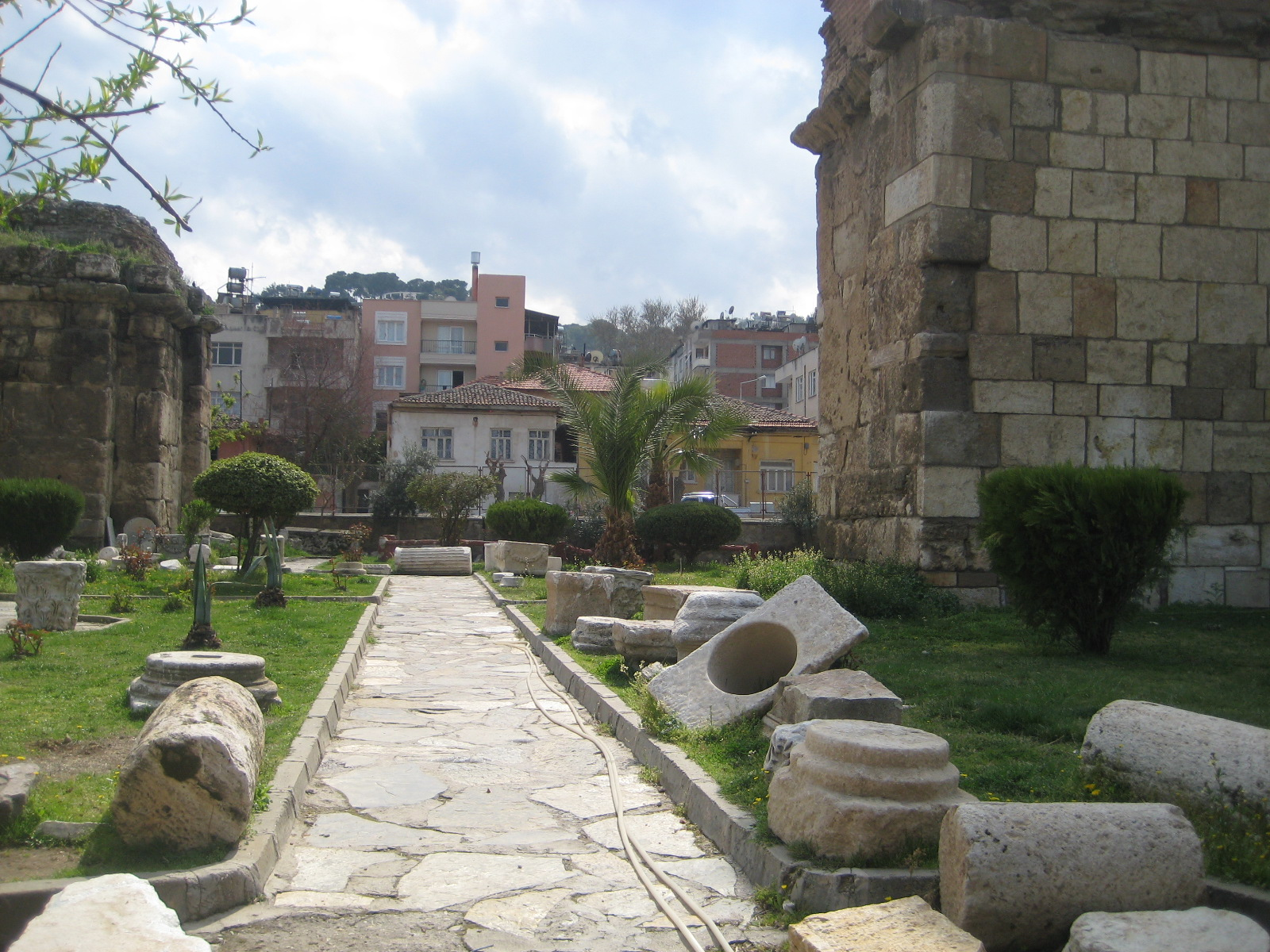 St. John's Church in Alaşehir, formerly the Greek city of Philadelphia.